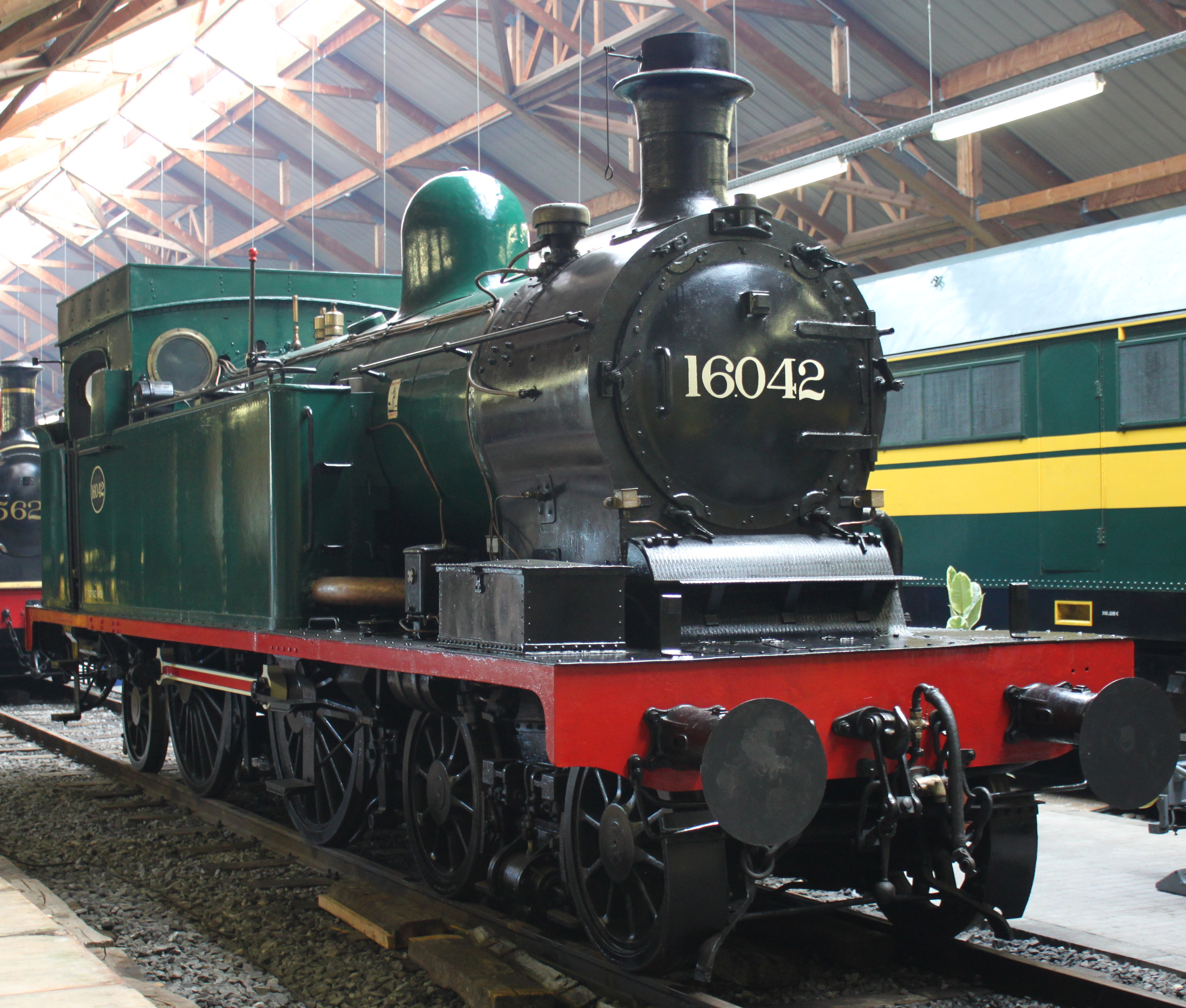 A type 16 steam loc from Belgian railway company SNCB-NMBS, as displayed at CFV3V museum in Treignes, Belgium. This family of locomotives is inspired by the production of britisn engineer Mac Intosh o fthe Caledonian Railways, especially from Class 721 "Dunalastair" .